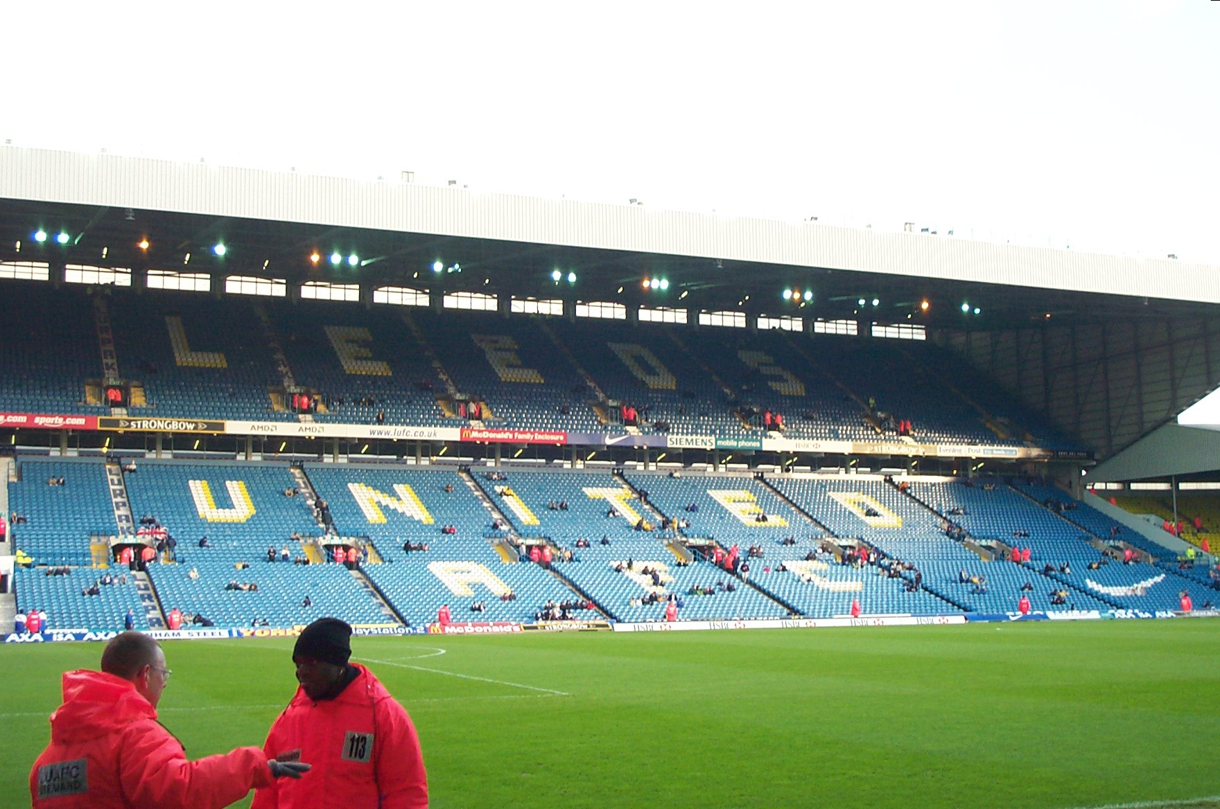 The East Stand at Elland Road, Leeds. Taken on the 2nd of May 2007.